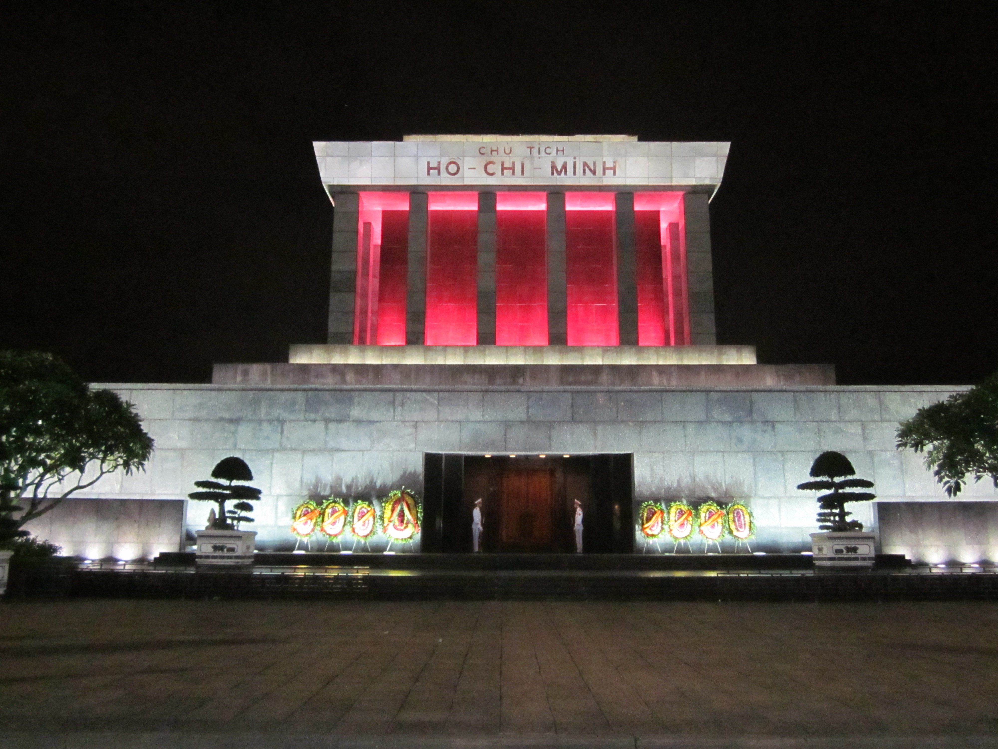 The Ho Chi Minh mausoleum in Hanoi by night, Hanoi